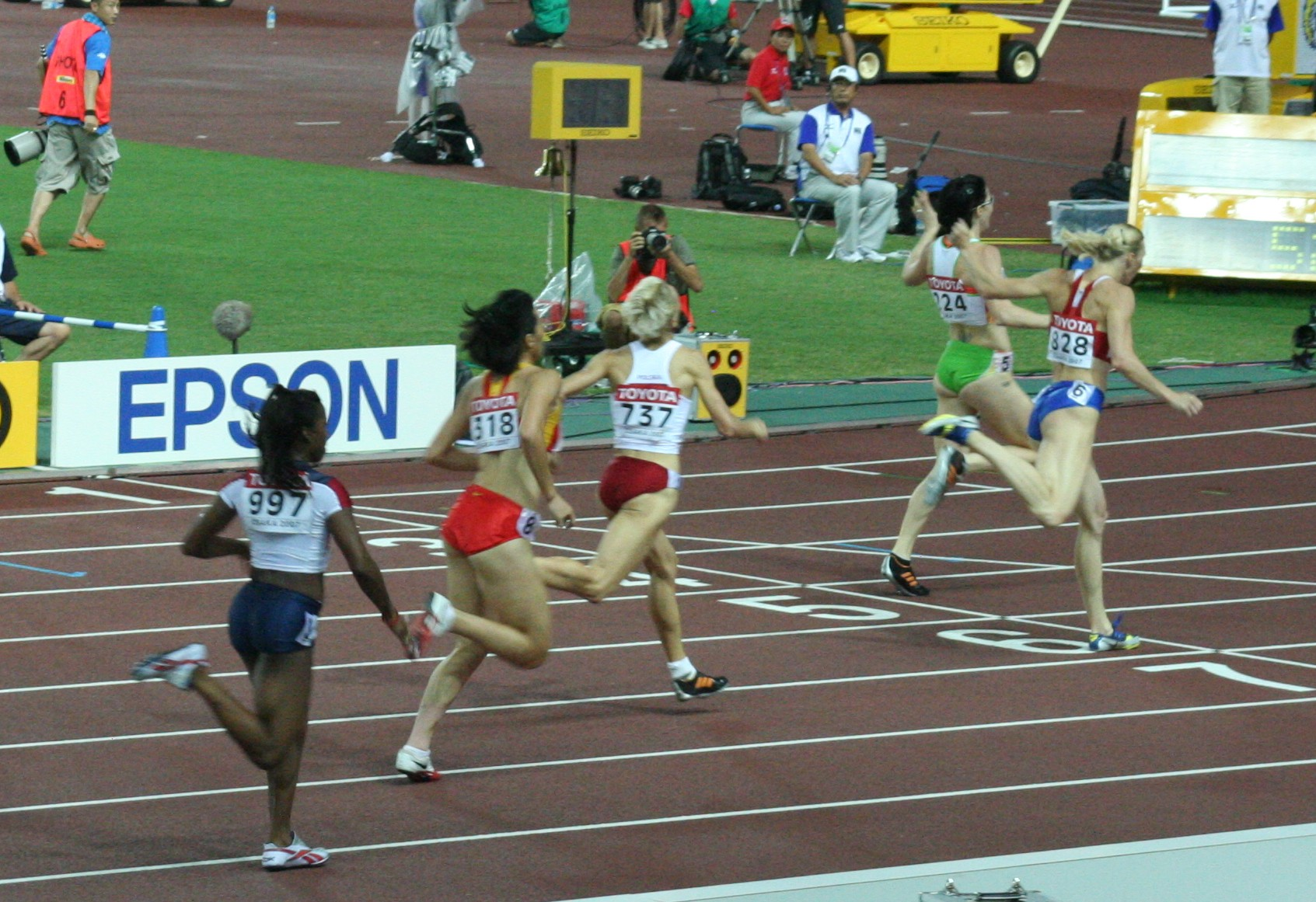 World Athletics Championships 2007 in Osaka - Finishing line of the women*s 400 metres hurdles fina. Jana Rawlinson narrowly defends her advantage against Yuliya Pechenkina. Tiffany Williams, Xiaoxiao Huang, Anna Jesien, Jana Rawlinson, Yuliya Pechenkina